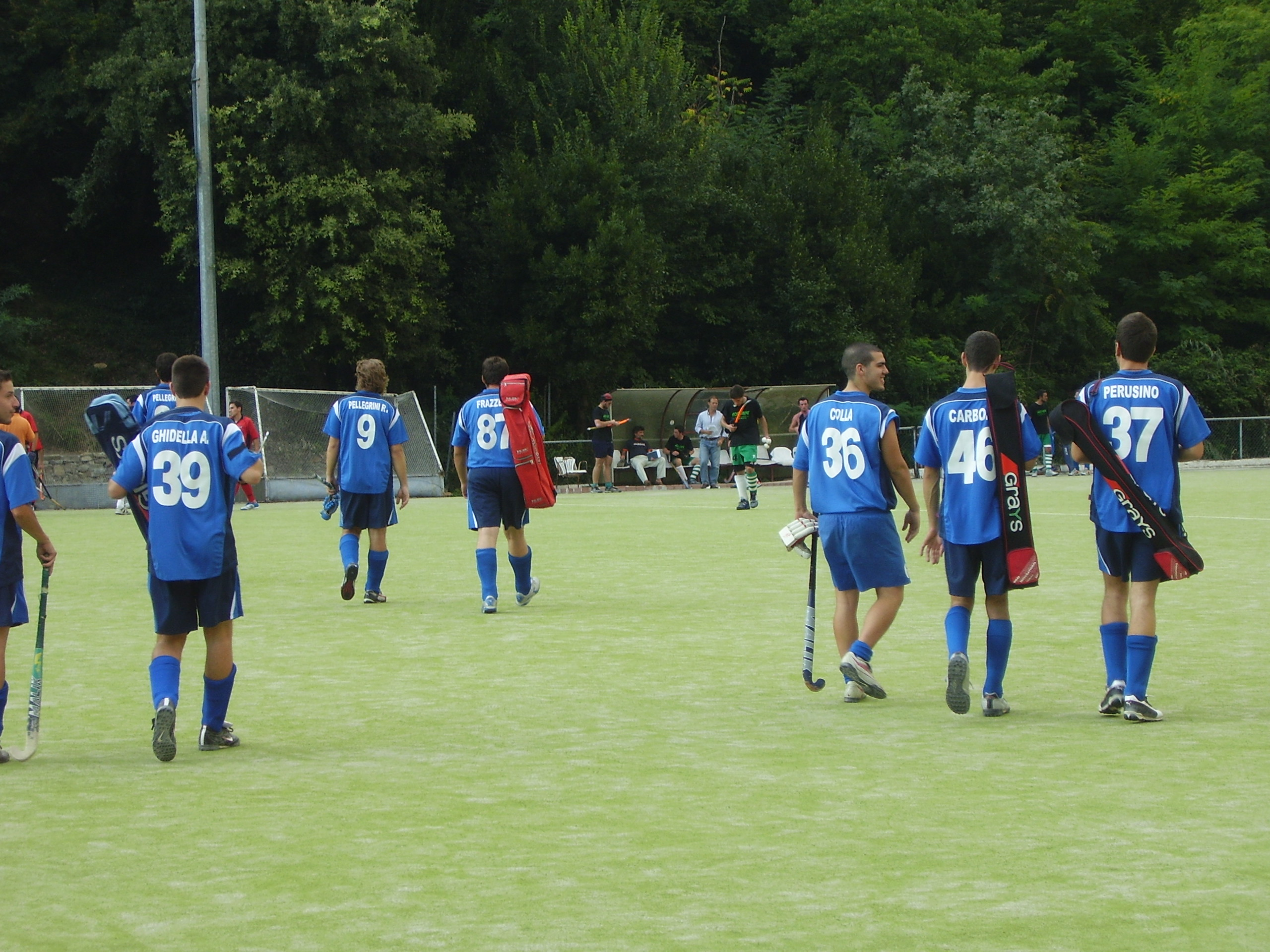 The 60th anniversary of CUS Genova Hockey: players of HC Liguria